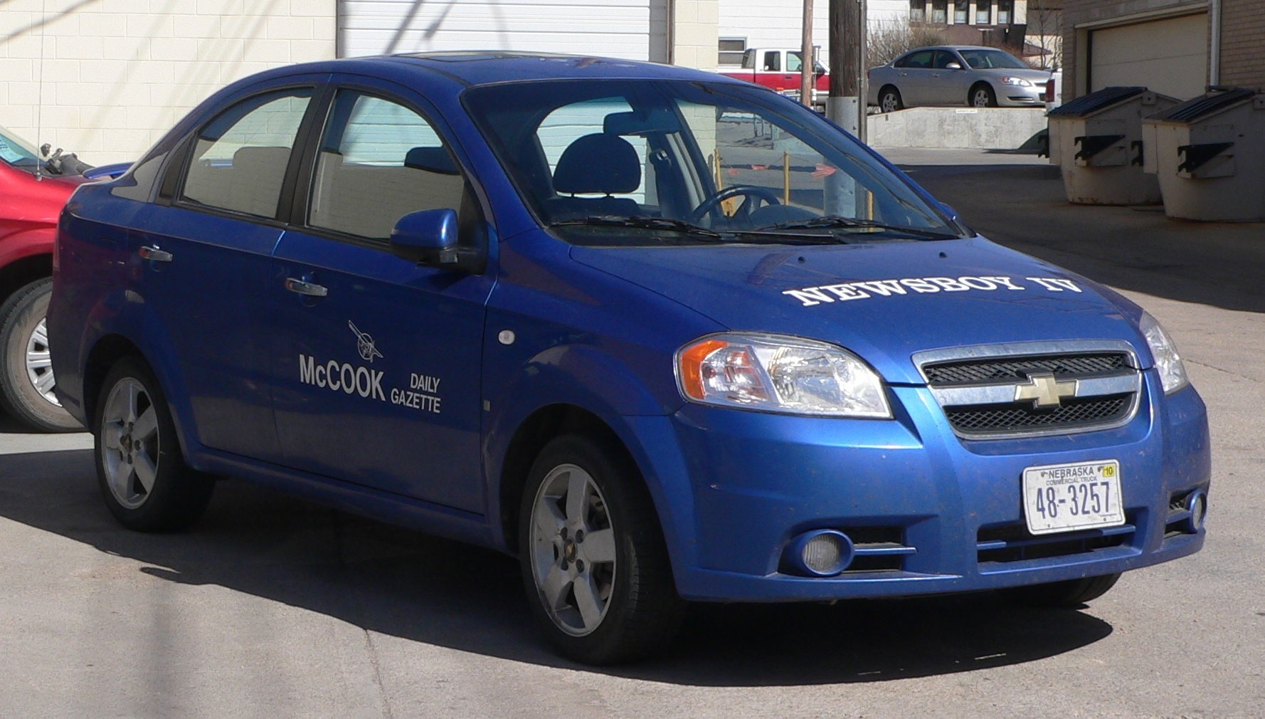 Delivery car "Newsboy IV" belonging to McCook Daily Gazette. The image above "McCook" on the car's door is the original "Newsboy" airplane.